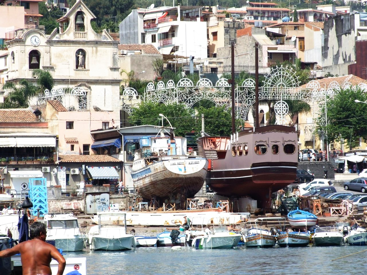 Aci Trezza Aci Castello Italy Italia Castielli CC0